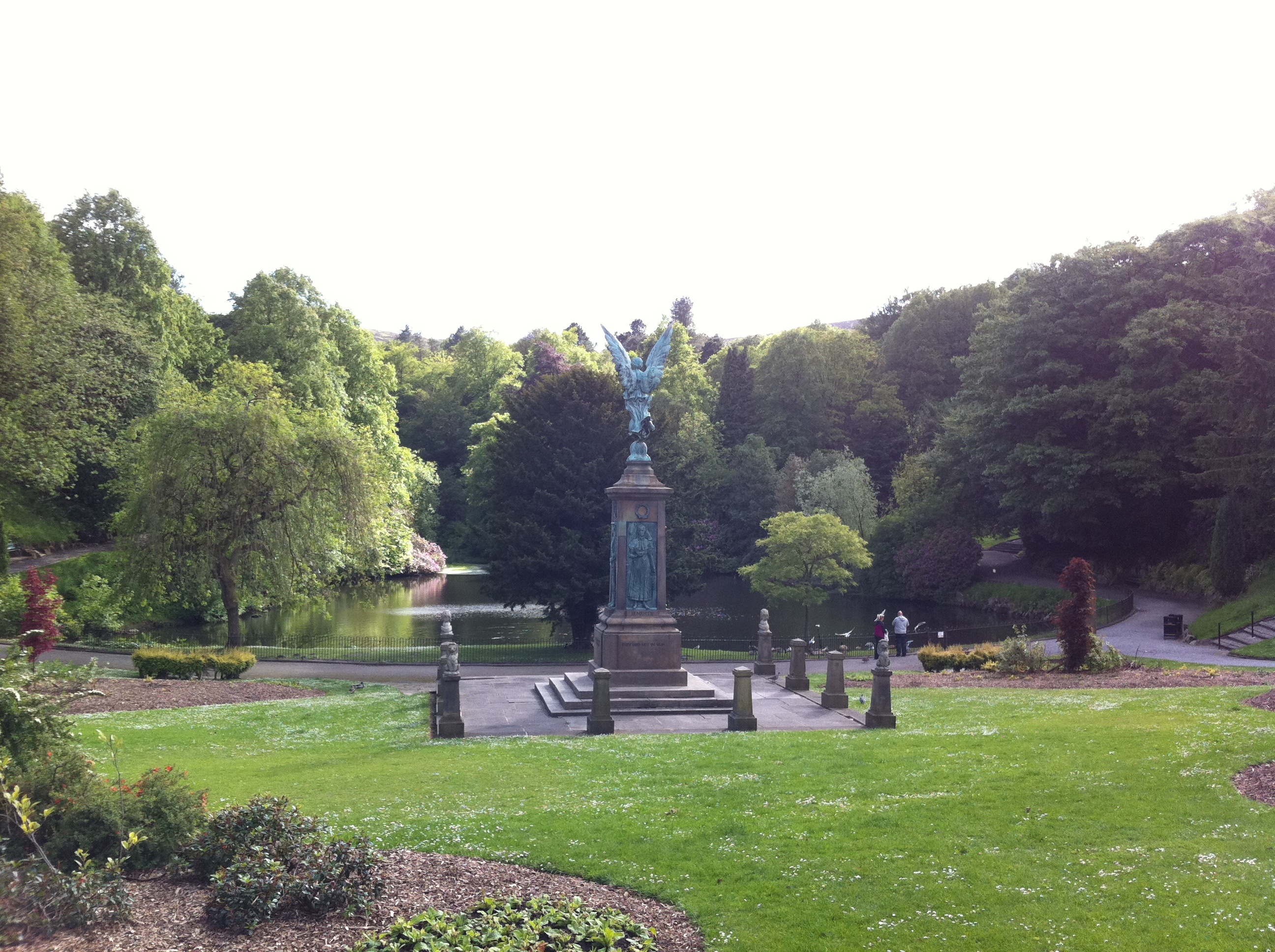 Bold Venture Park including war memorial